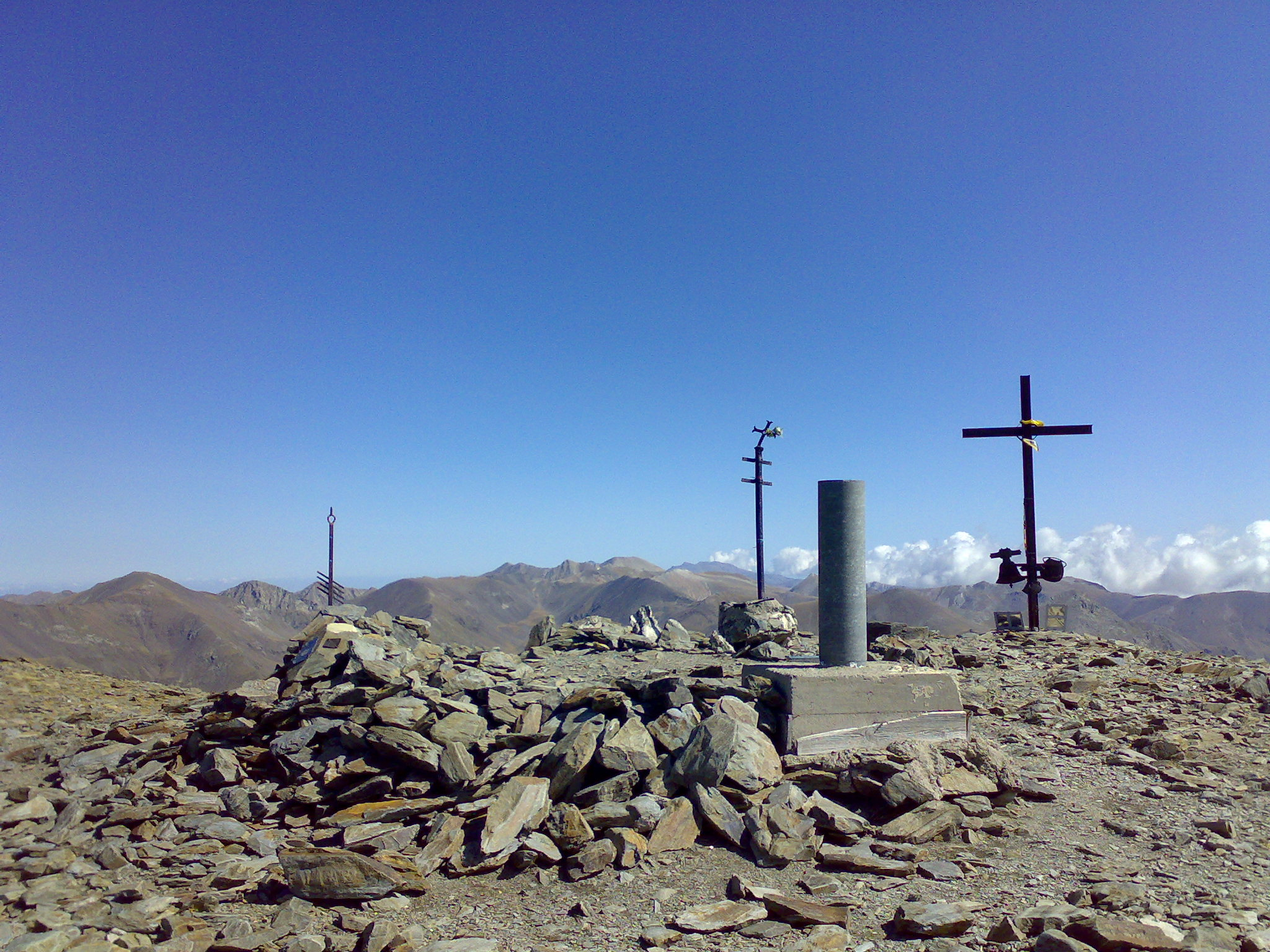 Top of Puigmal